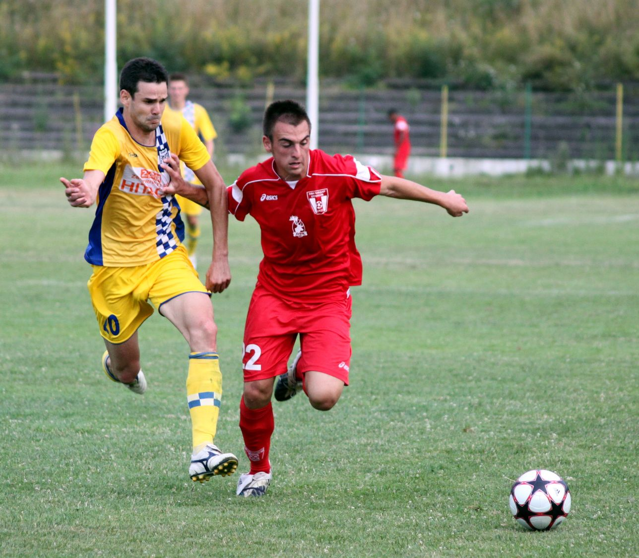 Deyan Petrov (in yellow) from soccer team "Slivnishki geroi" Slivnitsa, Bulgaria.